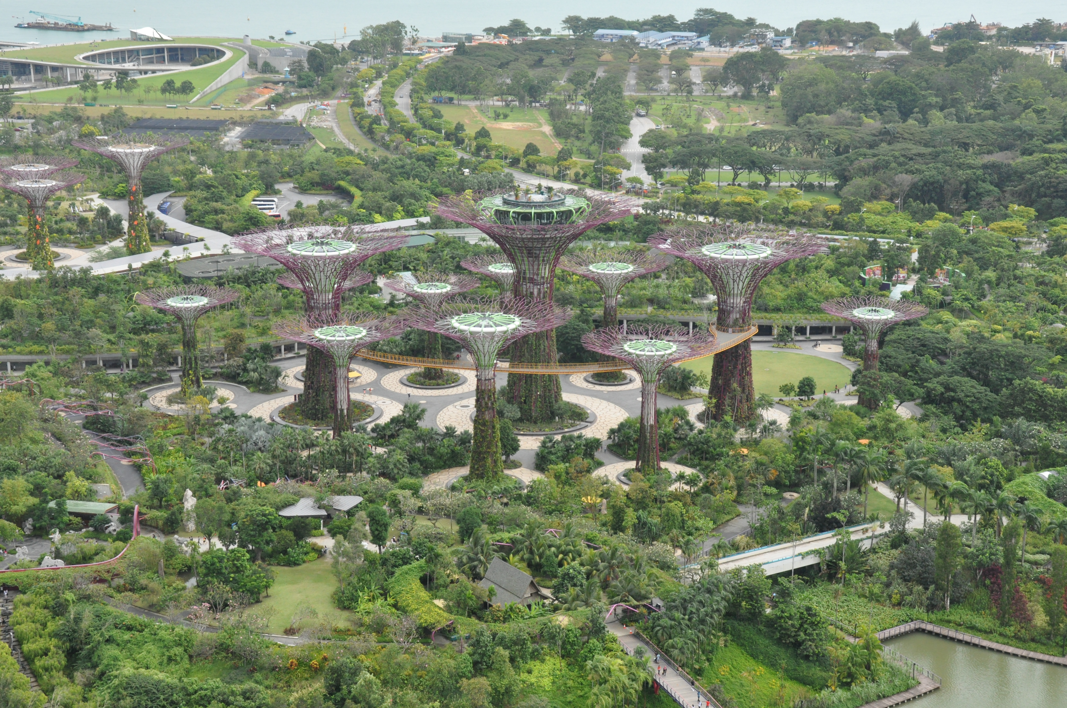 An aerial photograph of the Supertree Grove at the Gardens by the Bay, Marina Bay, Singapore.